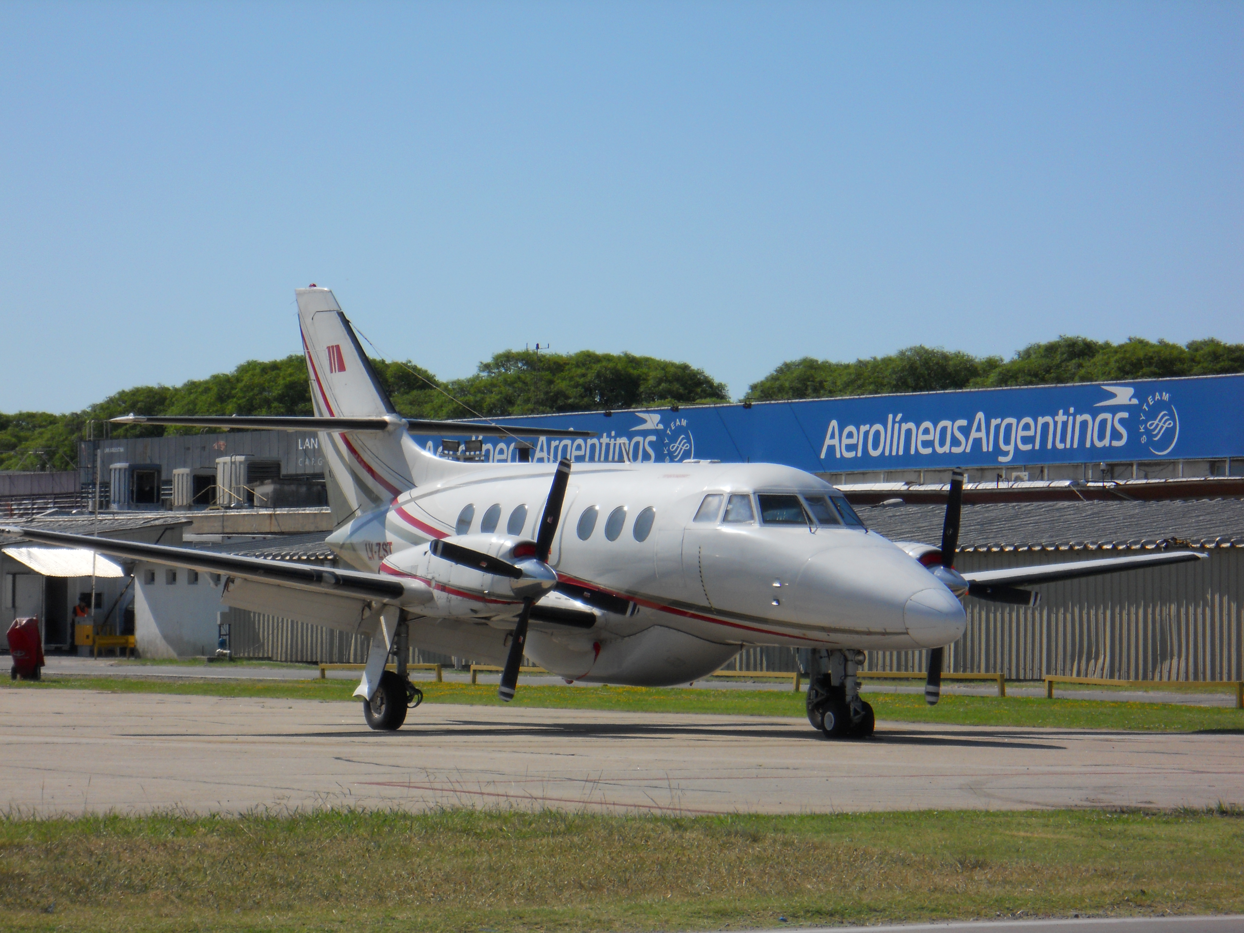 British Aerospace Jetstream 32 LV-ZST